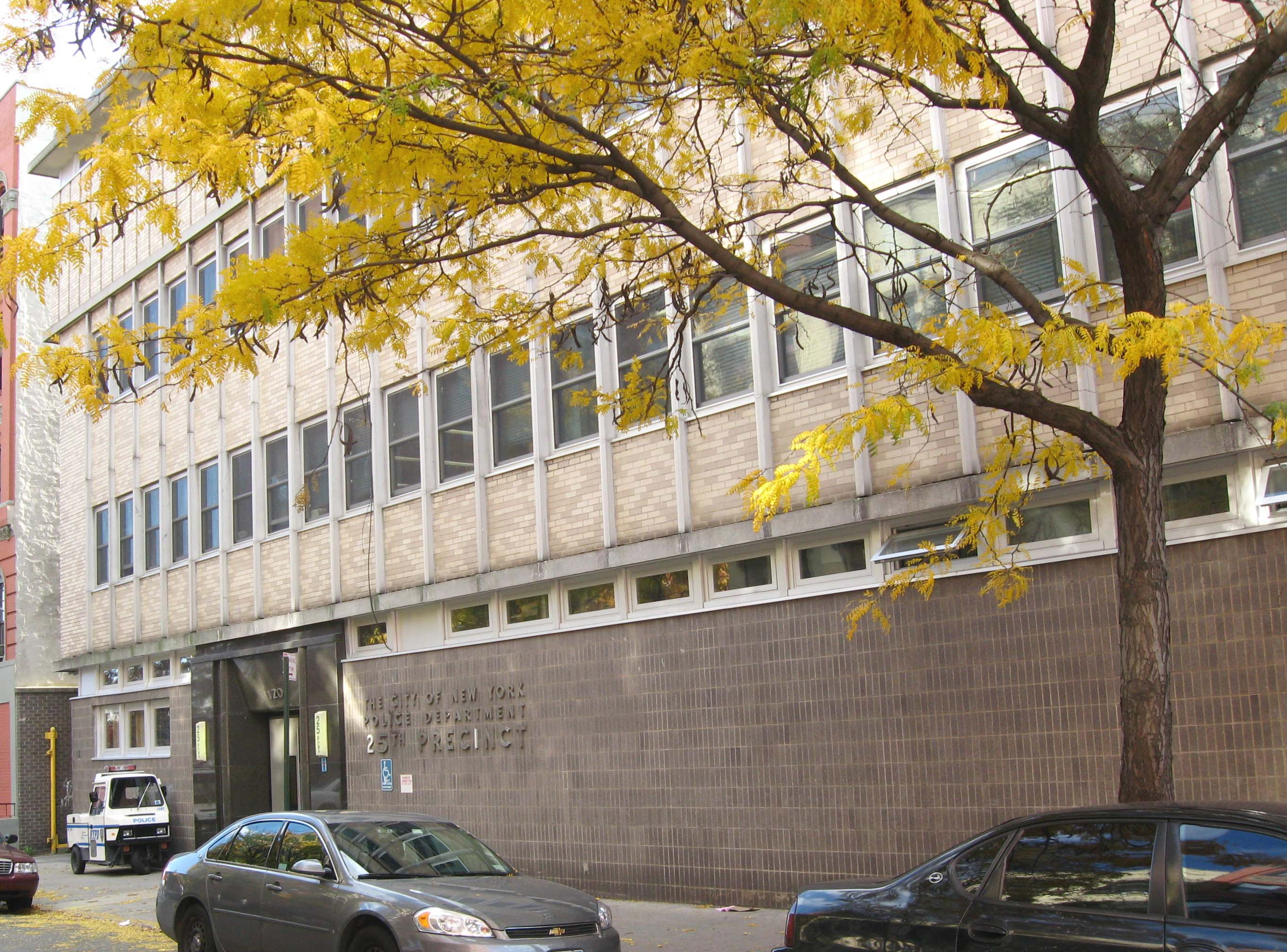 Looking south across 119th Street in Italian Harlem at 25th Precinct house on a sunny afternoon.